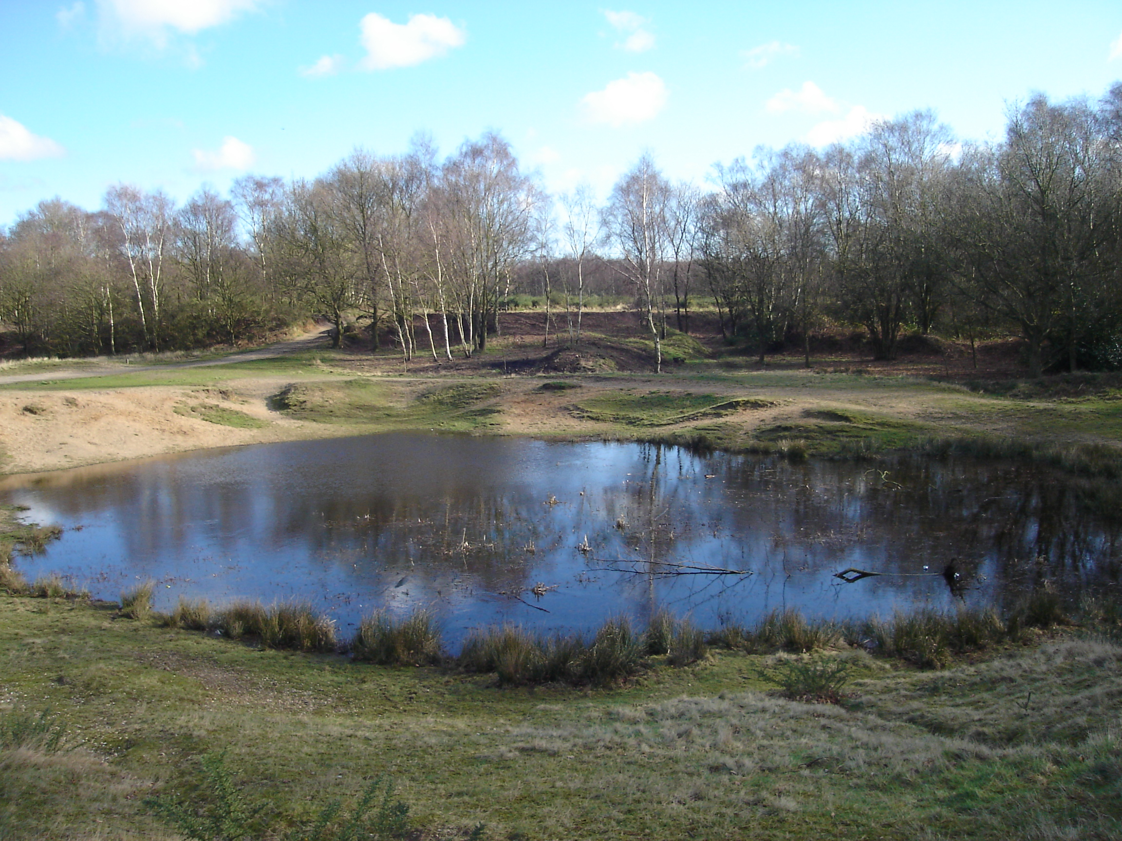 Picture of Vinegar Pond